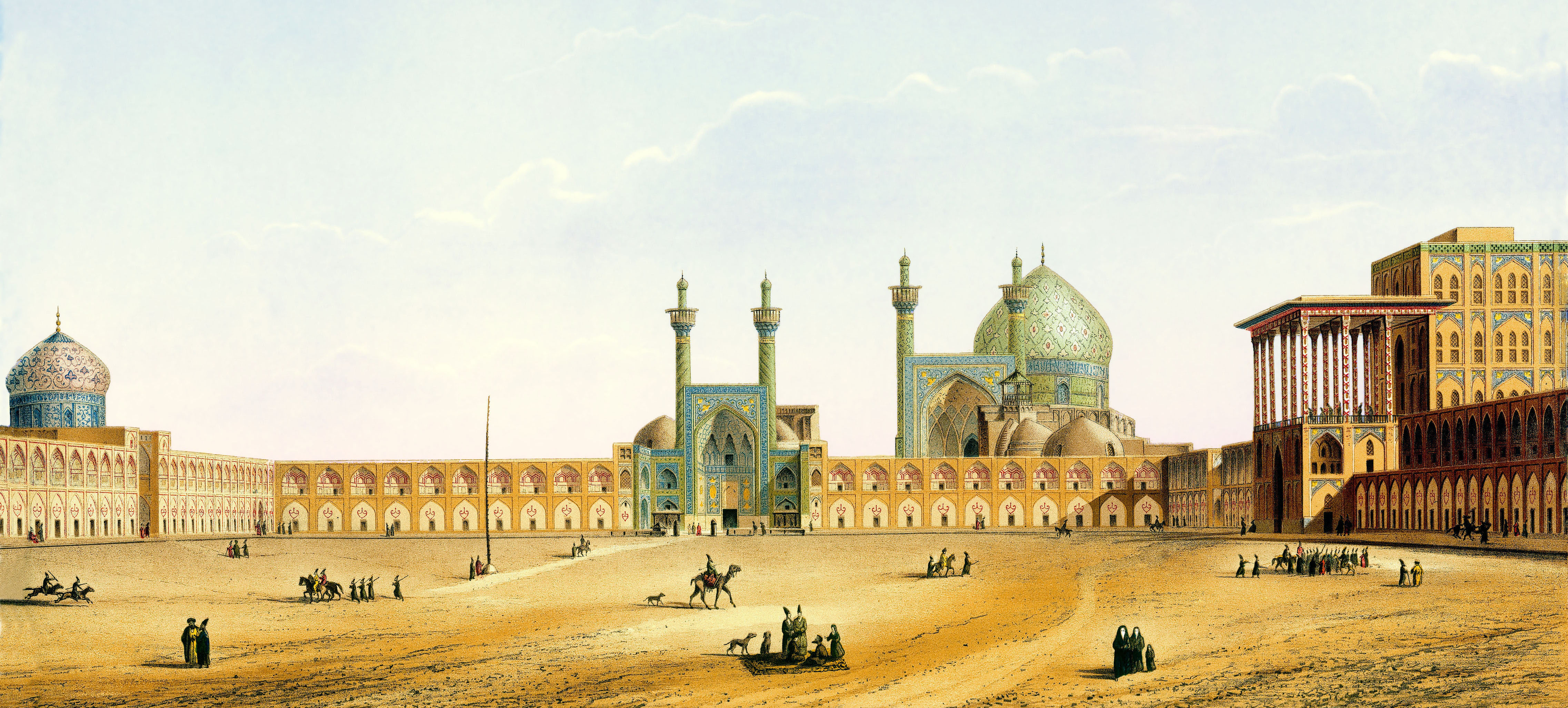 19th century drawing of Naqsh-e Jahan Square, Isfahan; this drawing is the work of French architect, Xavier Pascal Coste, who traveled to Iran along with the French king's embassy to Persia in 1839.